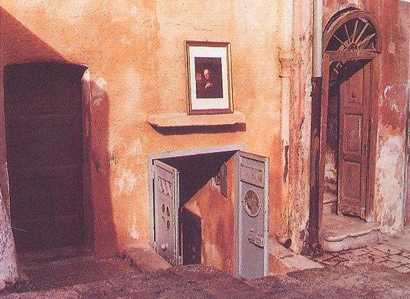 Saint'Giles from Taranto born house